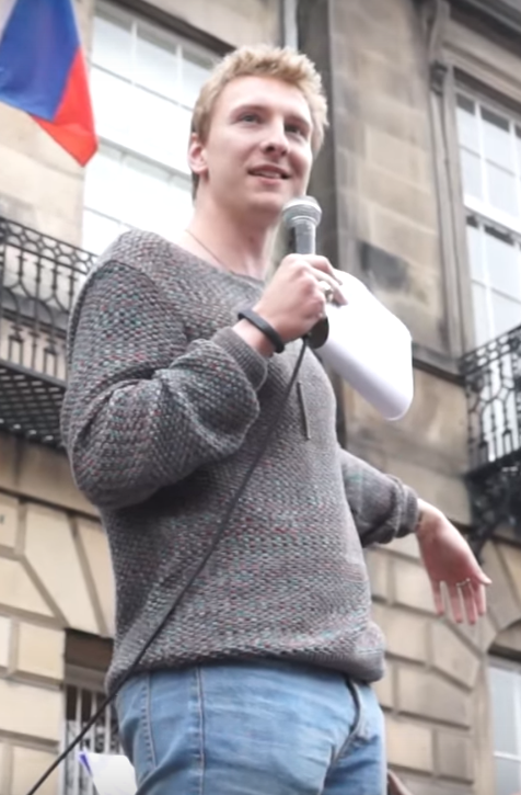 Cropped video still of Joe Lycett, British comedian, performing for the Equality Network's LGBT Rights Stand-up for Russia event near the Russian Consulate in Edinburgh, August 2013